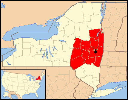 Map of the Catholic Diocese of Albany in the USA.